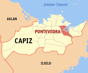 Map of Capiz showing the location of Pontevedra